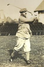 A circa 1905 photograph of Scottish amateur golfer Robert Maxwell (1876-1949). The won the British Amateur Championship twice, in 1903 and 1909, and was a frequent competitor in the Open Championship.